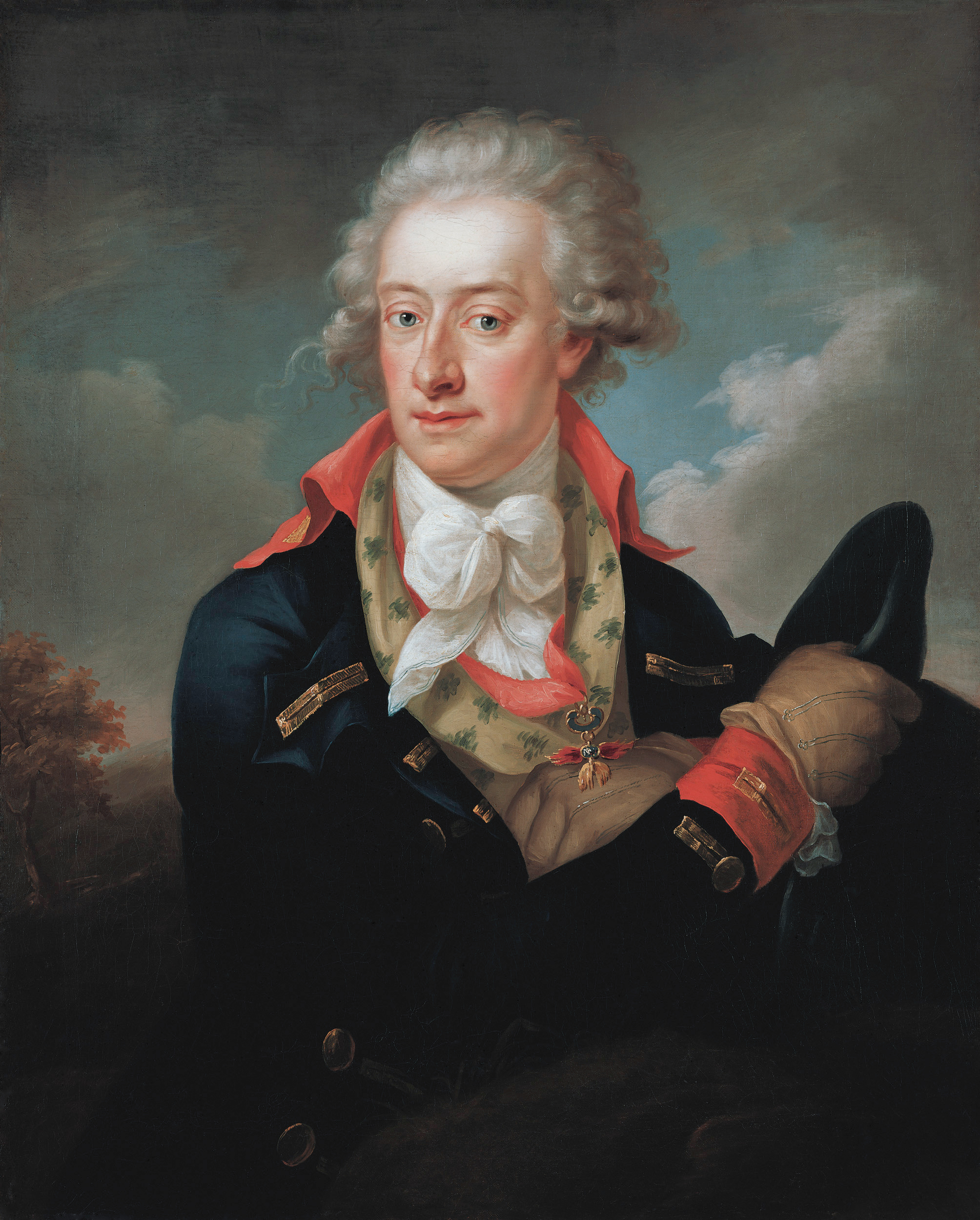 Prince Alois I von Liechtenstein oil on canvas 82 x 66 cm 1794